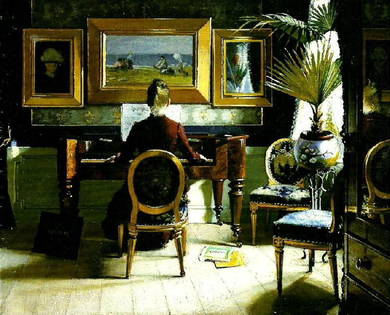 Vid Pianot